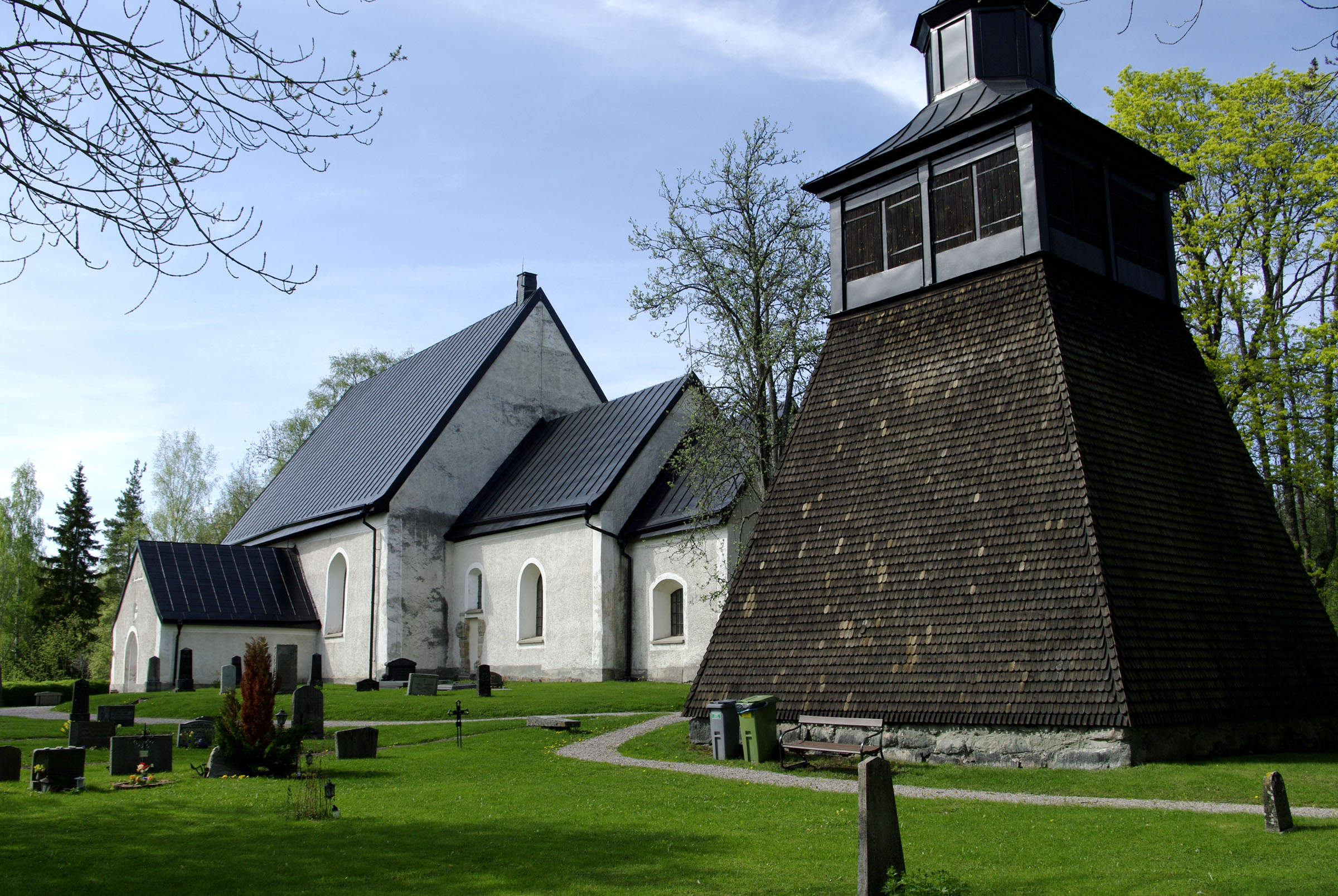 Torpa church in the landscape of Södermanland, Sween.